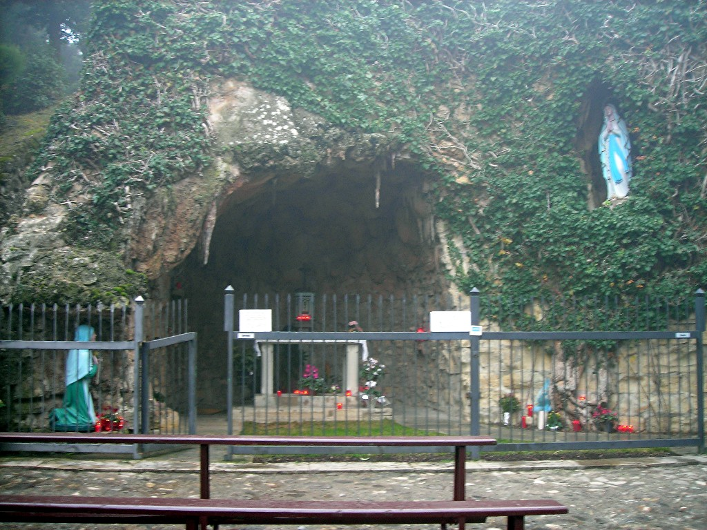 Canoscio, reproduction of Lourdes miracle